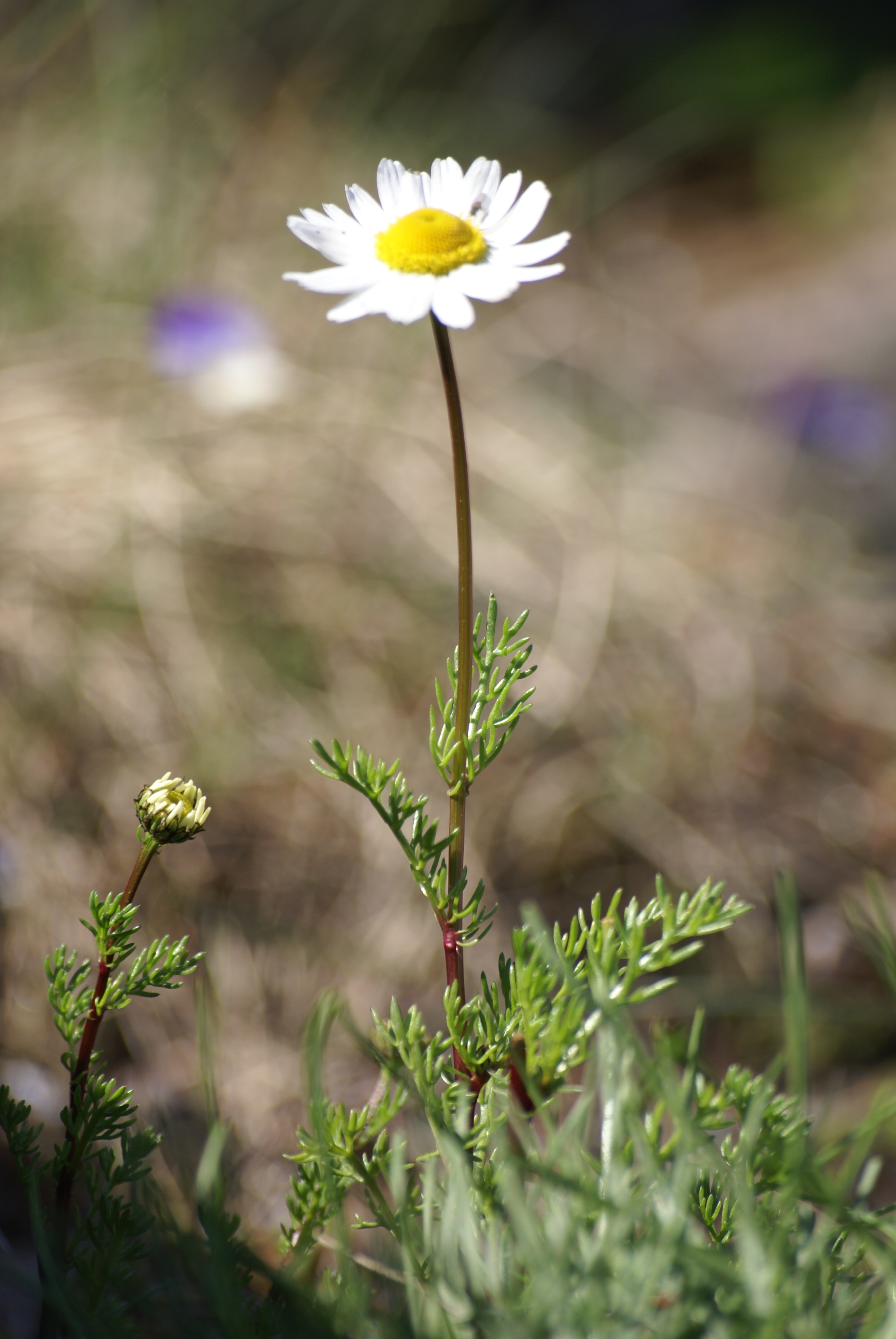 Plant species Tripleurospermum maritimum shot near Gryt in southeast Sweden.